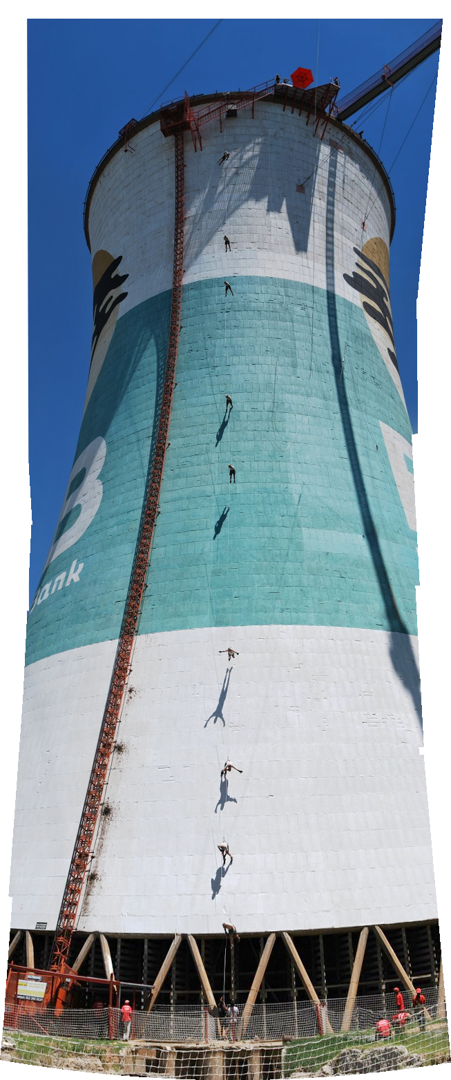 This a picture of a man rap jumping down the Orlando Power station cooling towers in Soweto South Africa This image was created with Hugin